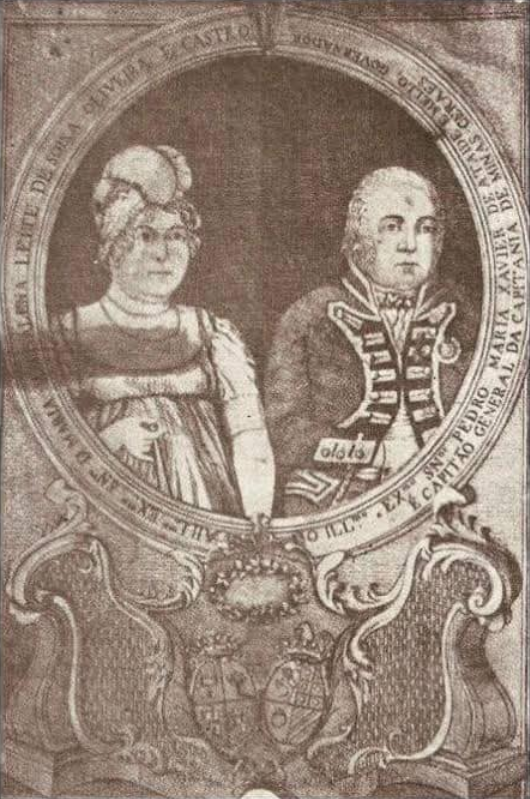 Engraved portrait of Pedro Maria Xavier de Ataíde e Melo (Governor and Captain-General of the Captaincy of Minas Gerais, in Brazil) and Maria Madalena Leite de Sousa Oliveira e Castro